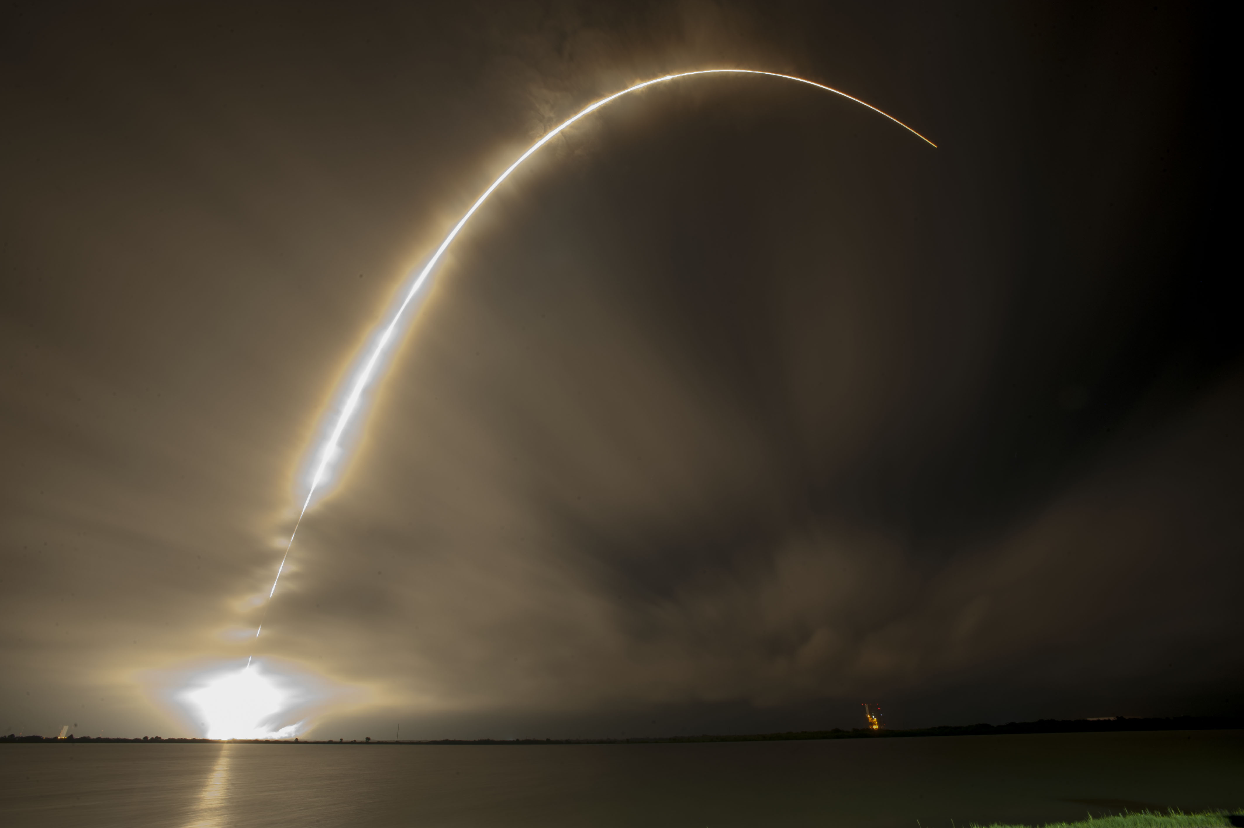 SpaceX's Falcon 9 rocket launched the AsiaSat 8 satellite to a geosynchronous transfer orbit at 4am EDT on August 5, 2014.